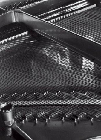 Klaviersaiten eines Flügels